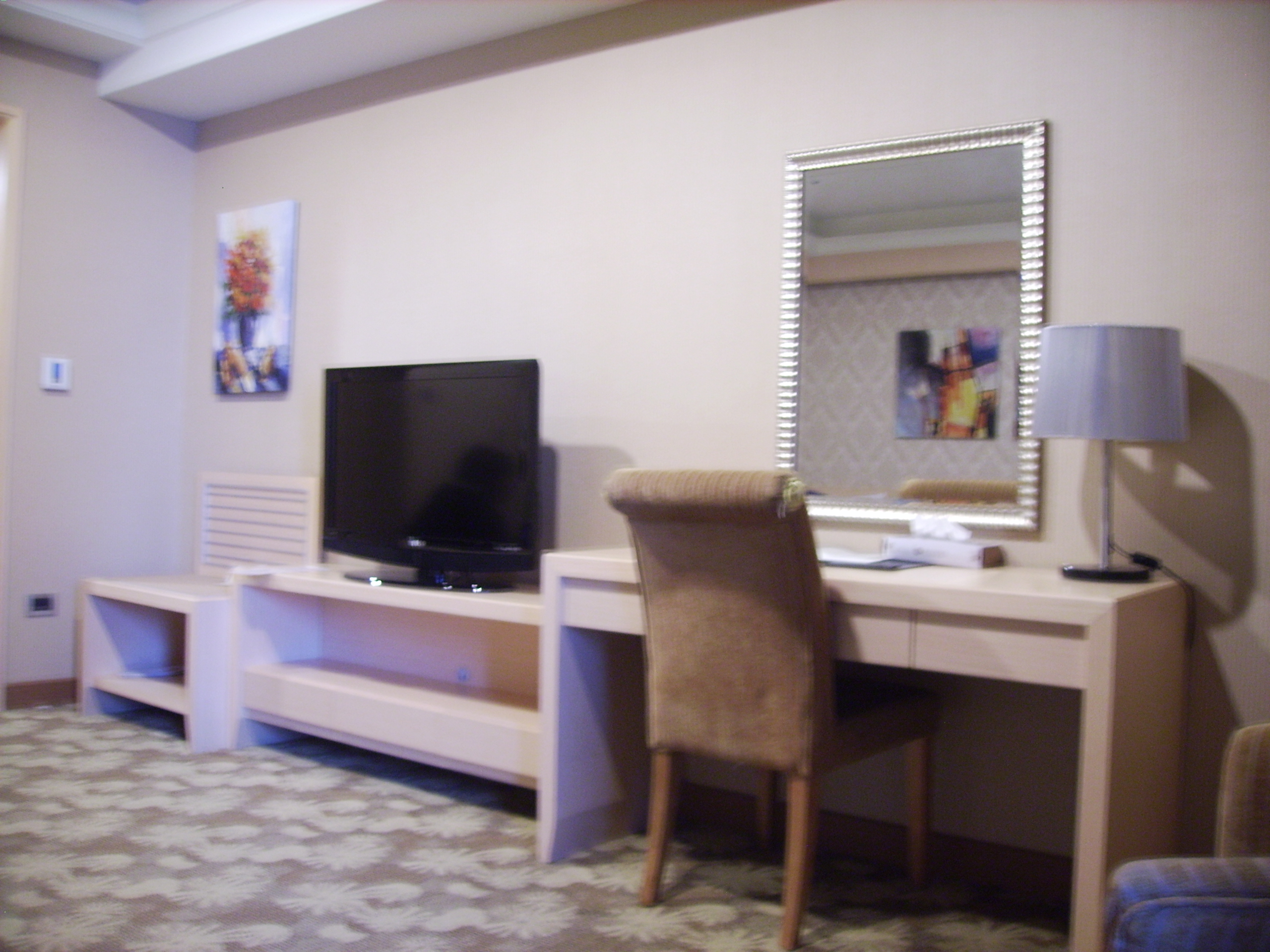 E-DA World 天悅房間-3